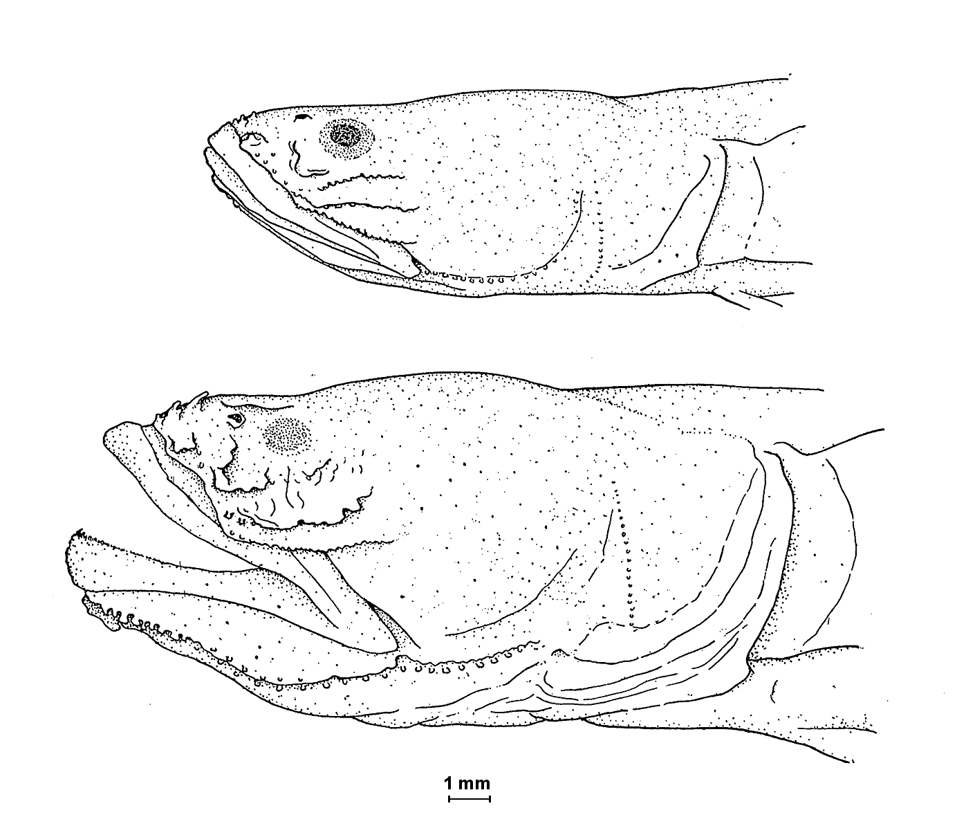 Heads of a juvenile (top) and adult (bottom) halfblind goby (Lethops connectens Hubbs, 1926)